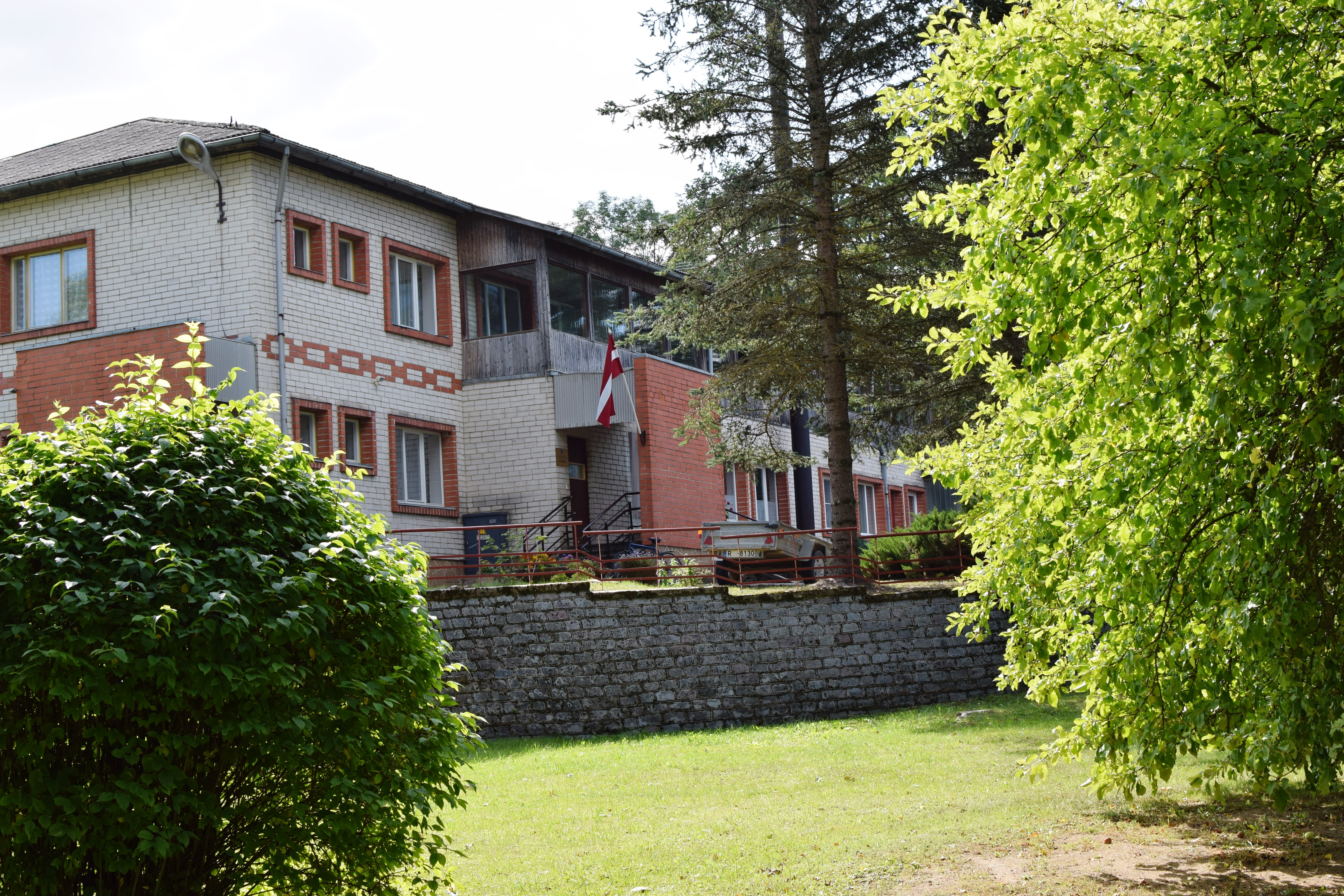 Saldus Municipality